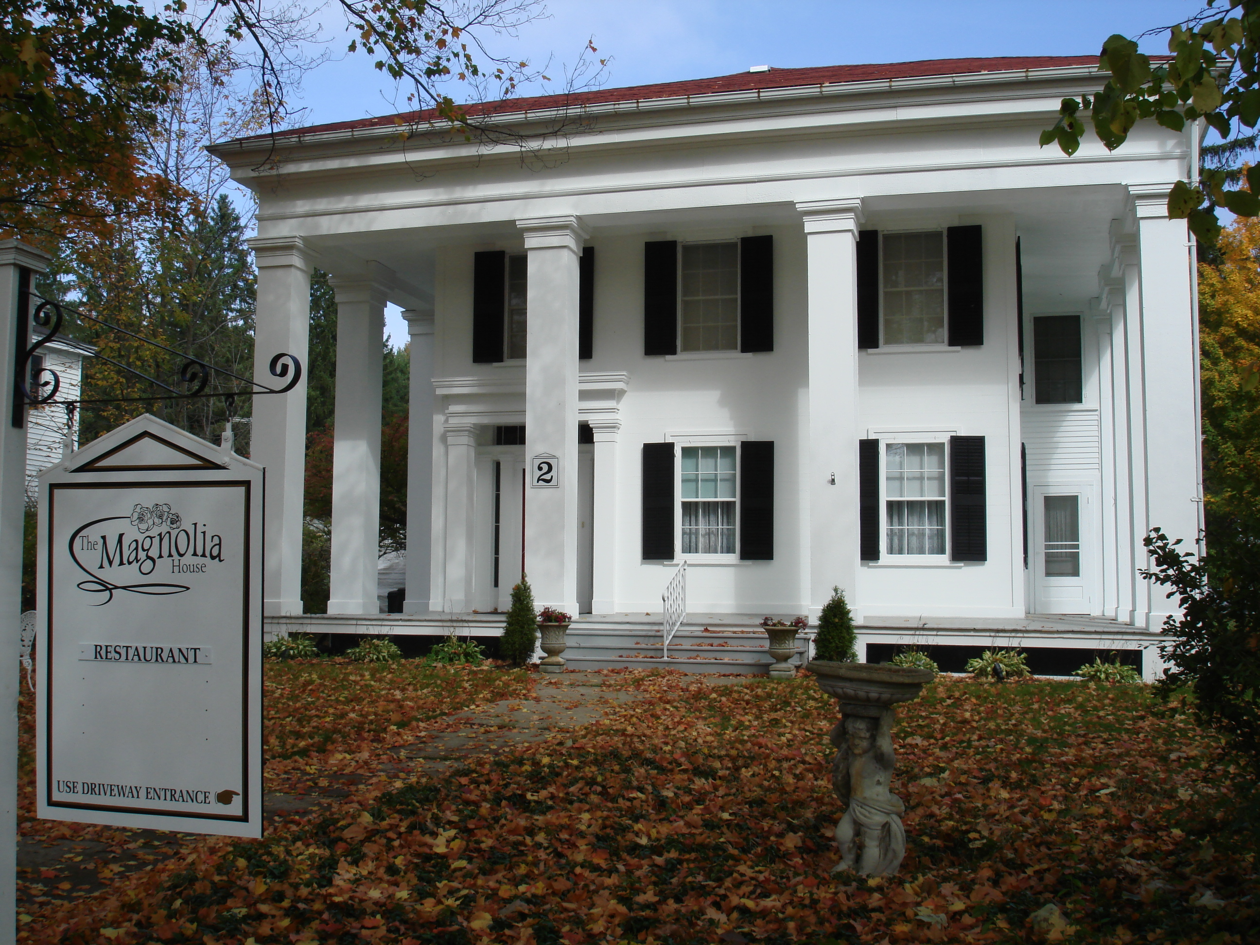 The Magnolia House, Restaurant in Angelica, NY